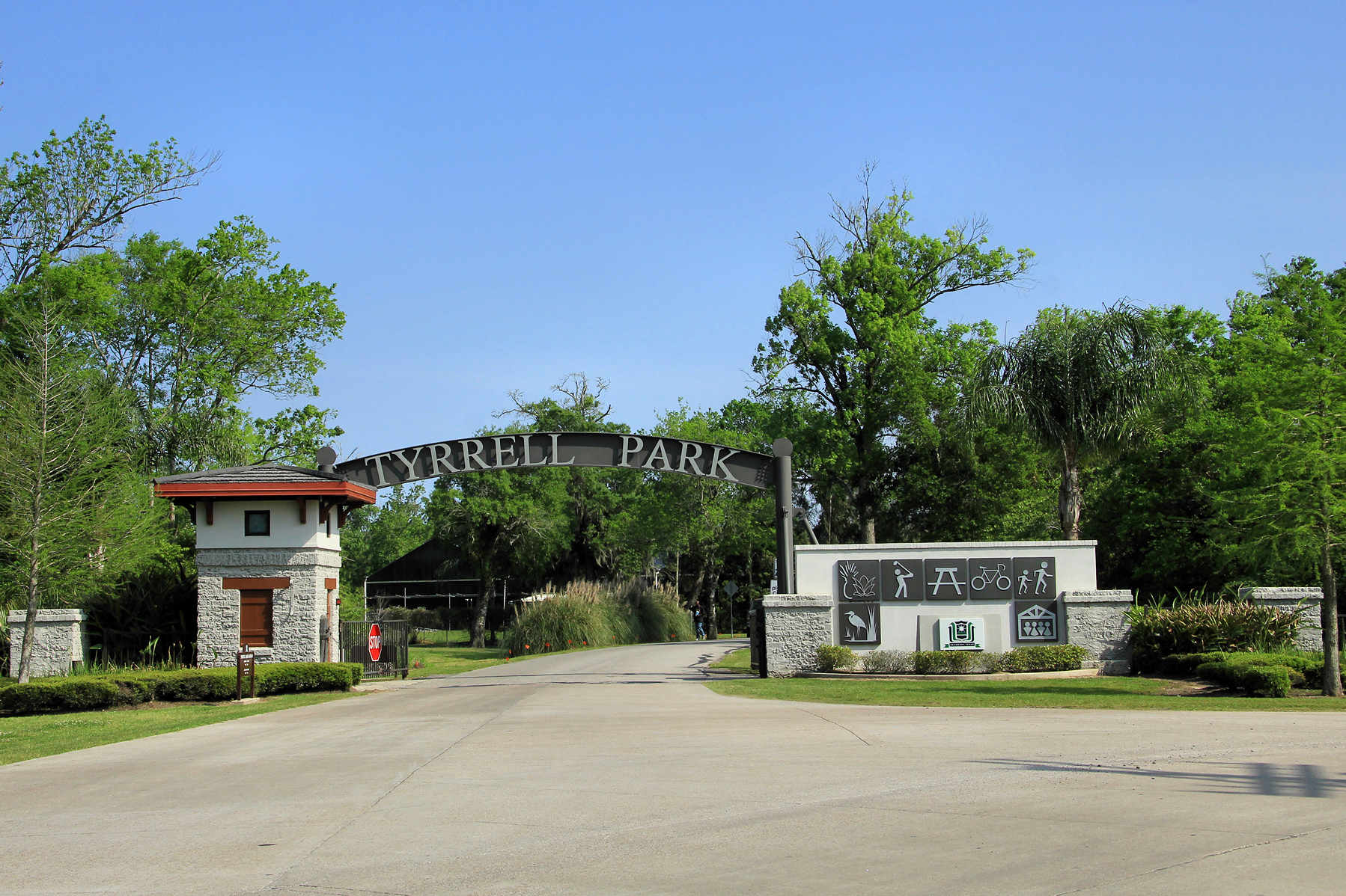 Tyrrell Park entrance portal in Beaumont, Texas, United States